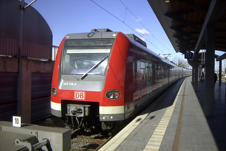 Hanover's suburban rail train type 423 at Hanover Messe/Laatzen train station